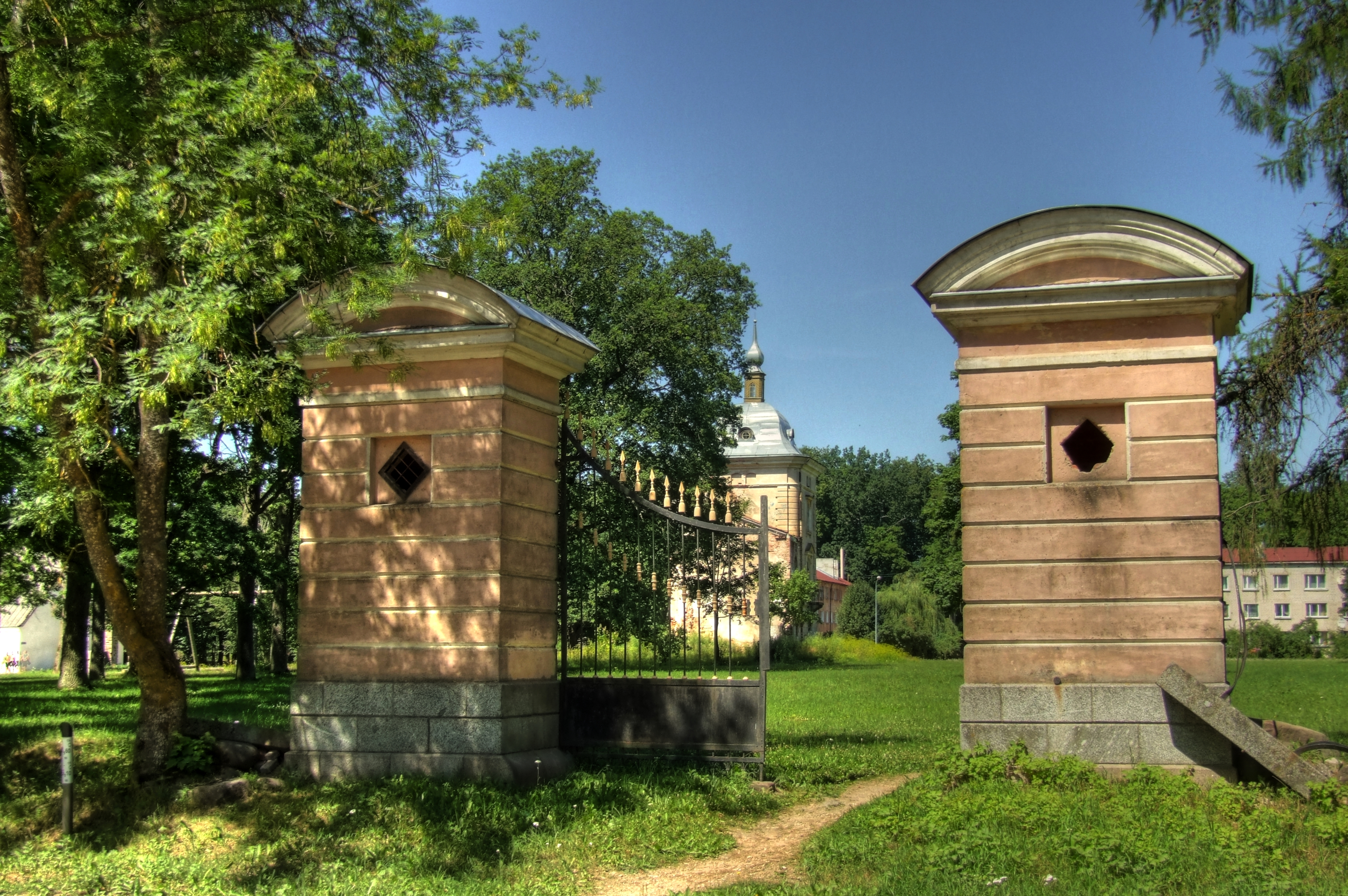 Valmiermuiža estate entranceLatviešu: Valmiermuižas vārti